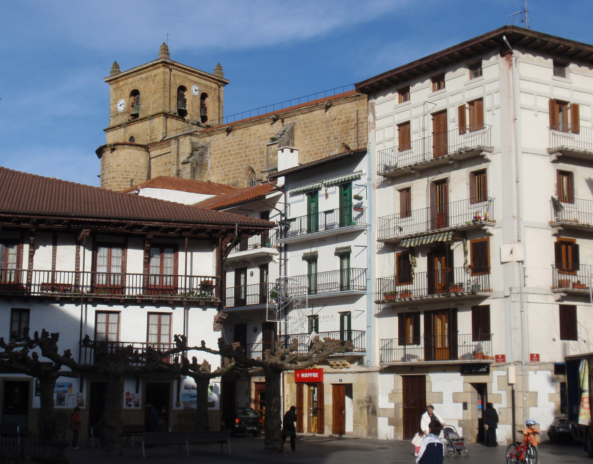 San Esteban church from square, Oiartzun (Guipuscoa, Basque Country)